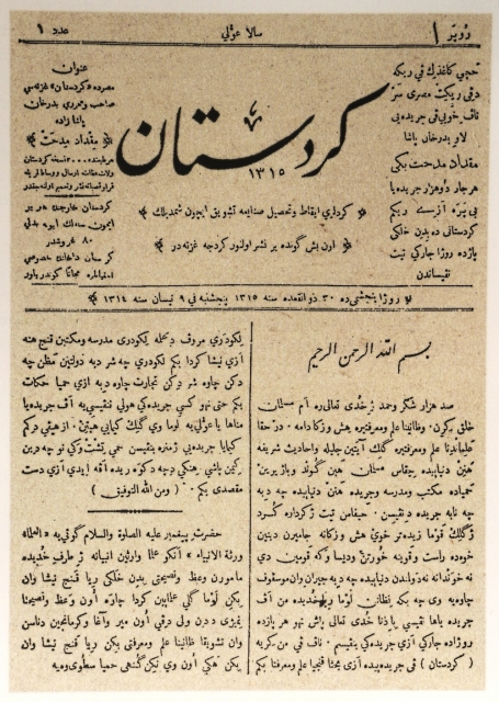 First page of Kurdistan, the first Kurdish newspaper published in 1898 in Cairo, Egypt by Mikdad Midhad Badirhan.